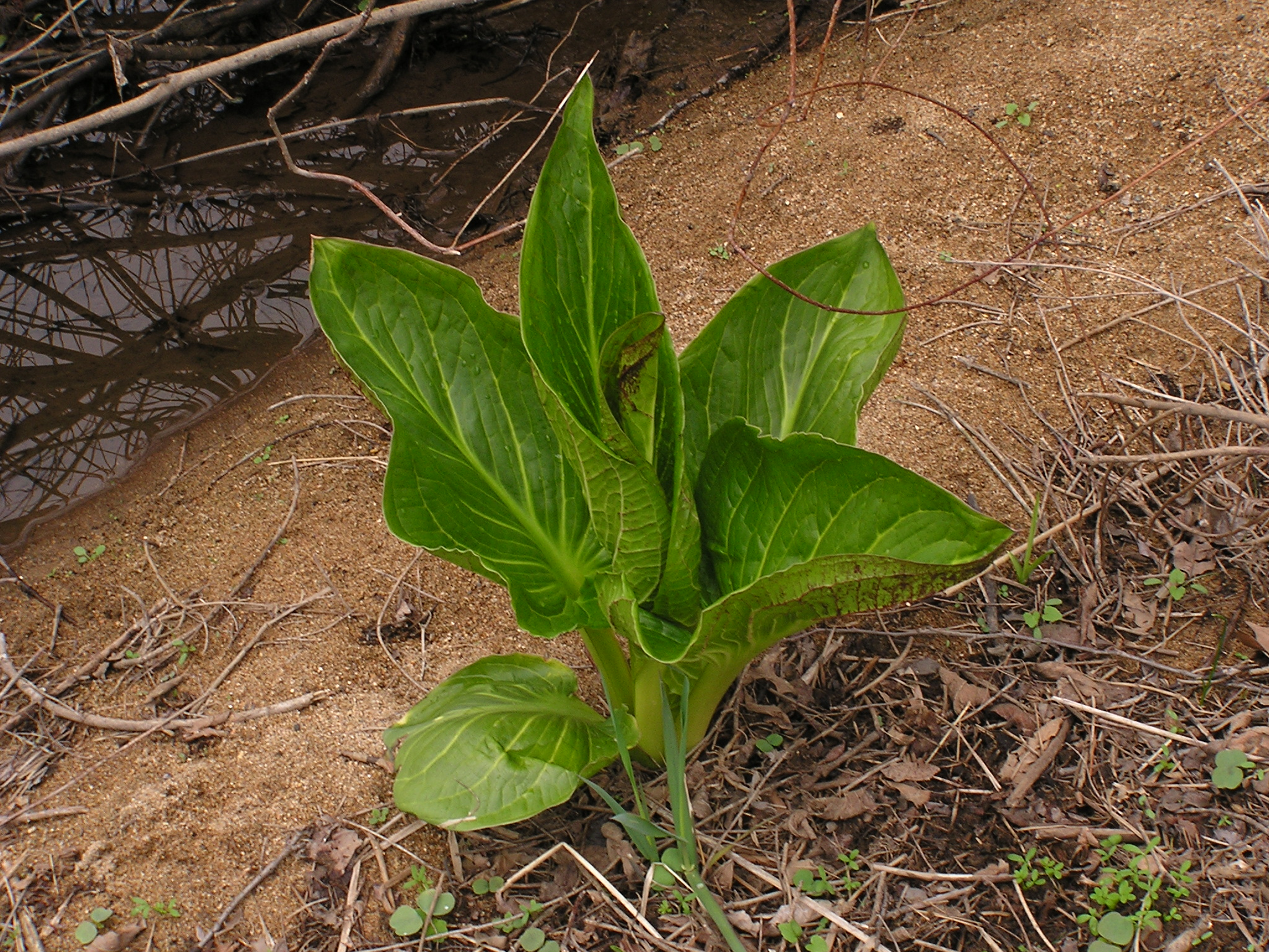 Symplocarpus foetidus foliage in early spring